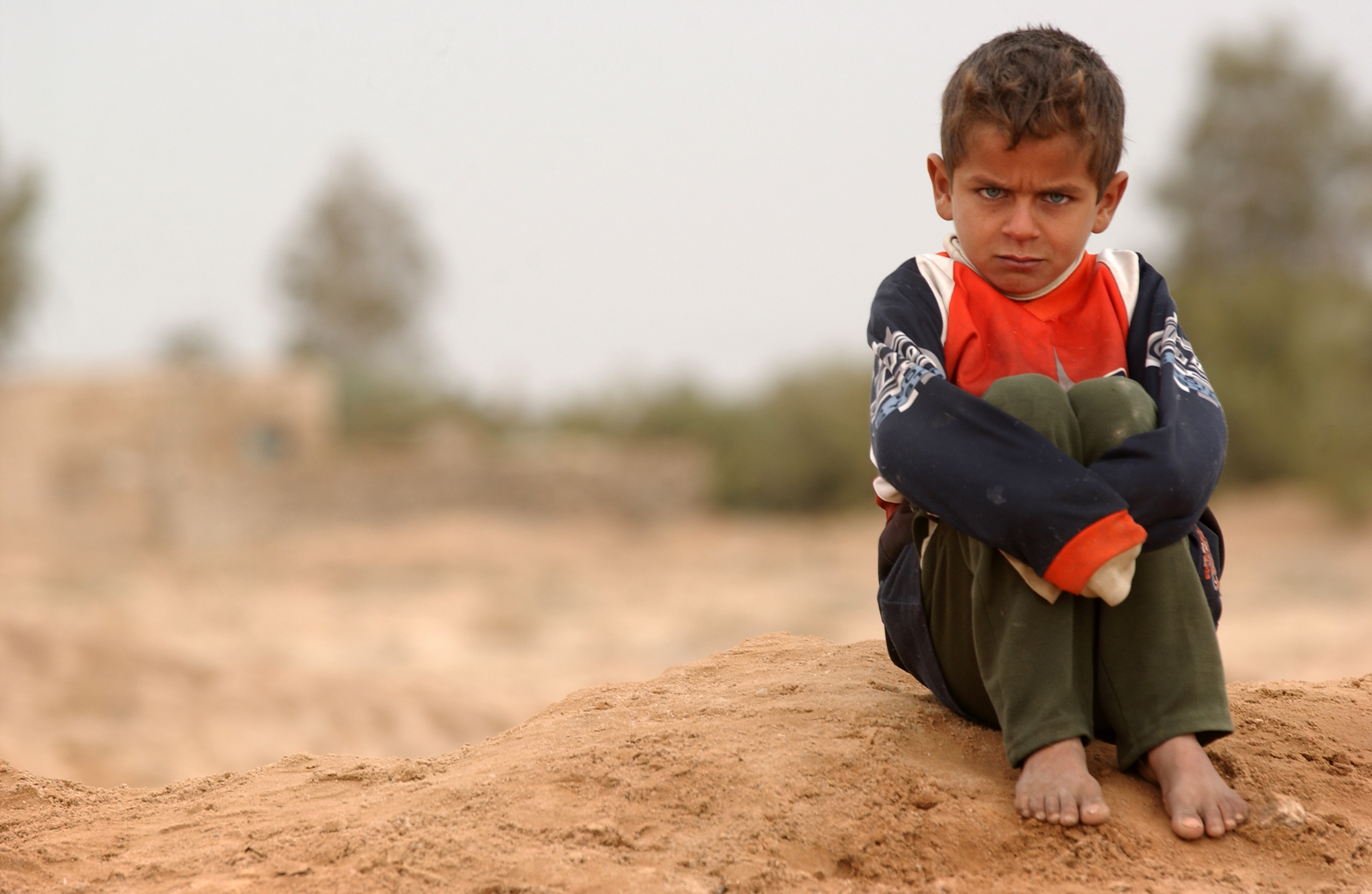 SHAMAR VILLAGE, Iraq � Upset over a candy dispute with another child, a boy displays an angry pout.